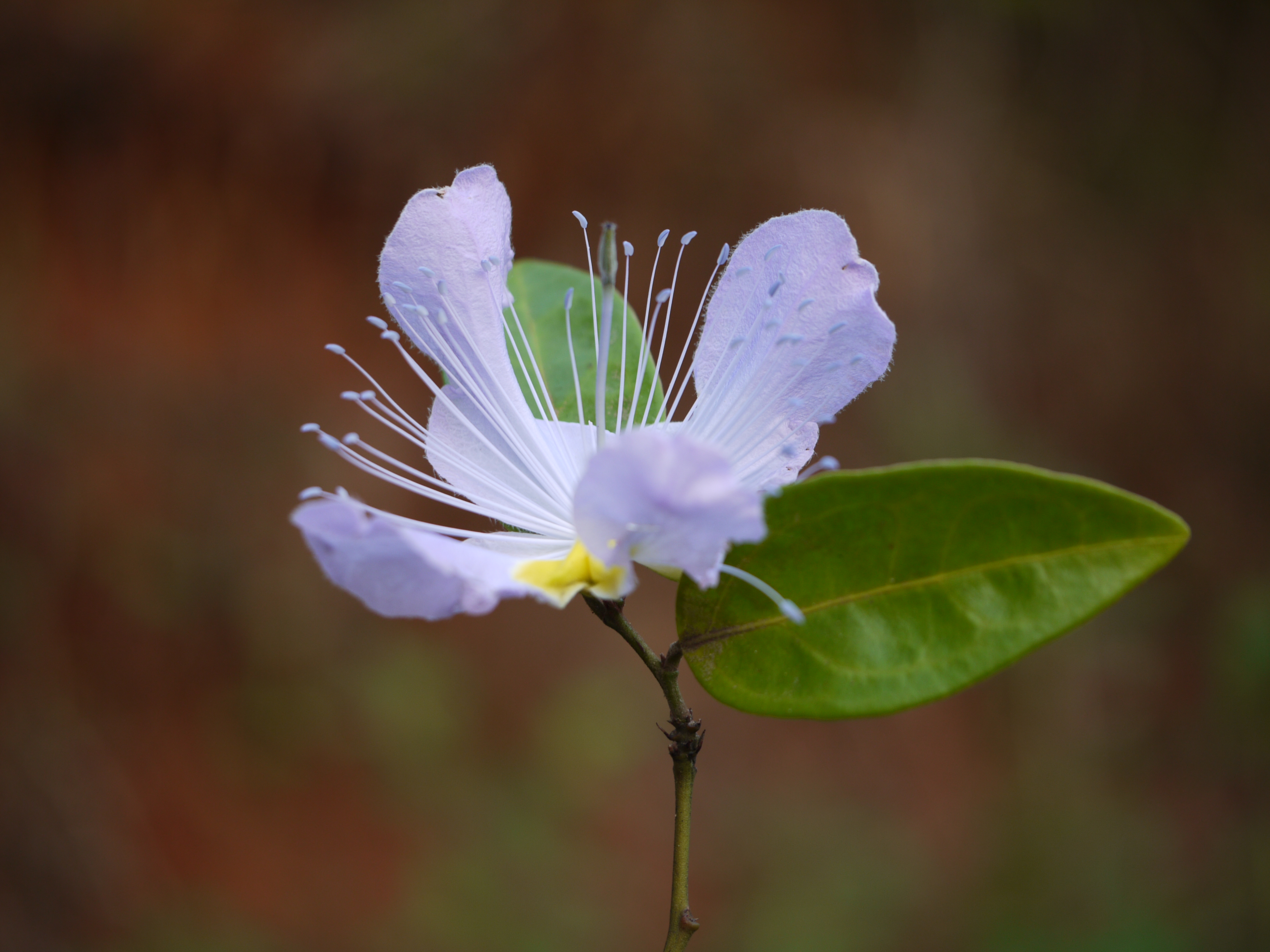 Capparaceae (caper family) » Capparis rheedei DC. KAP-ar-iss -- from the Greek kápparis, originating in the Near or Middle East REED-ee-eye -- named for Hendrik Adriaan van Rheede, Dutch naturalist, governor of Cochin in India commonly known as: Rheed's wild caper Endemic to: Western Ghats (India) References: Further Flowers of Sahyadri by S Ingalhalikar • The Plant List • Natural History Museum